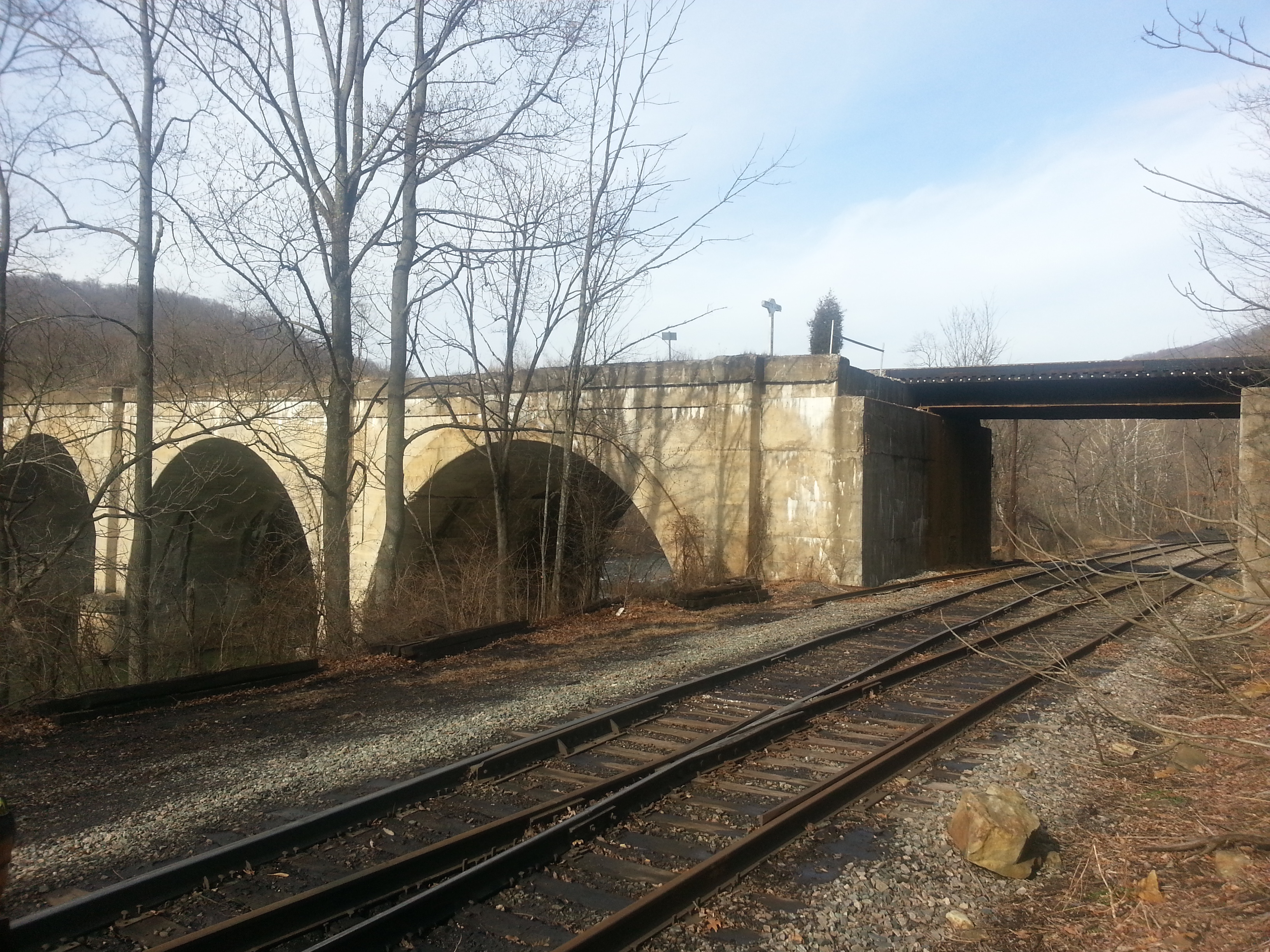 Bloomington Viaduct seen from one of its sides